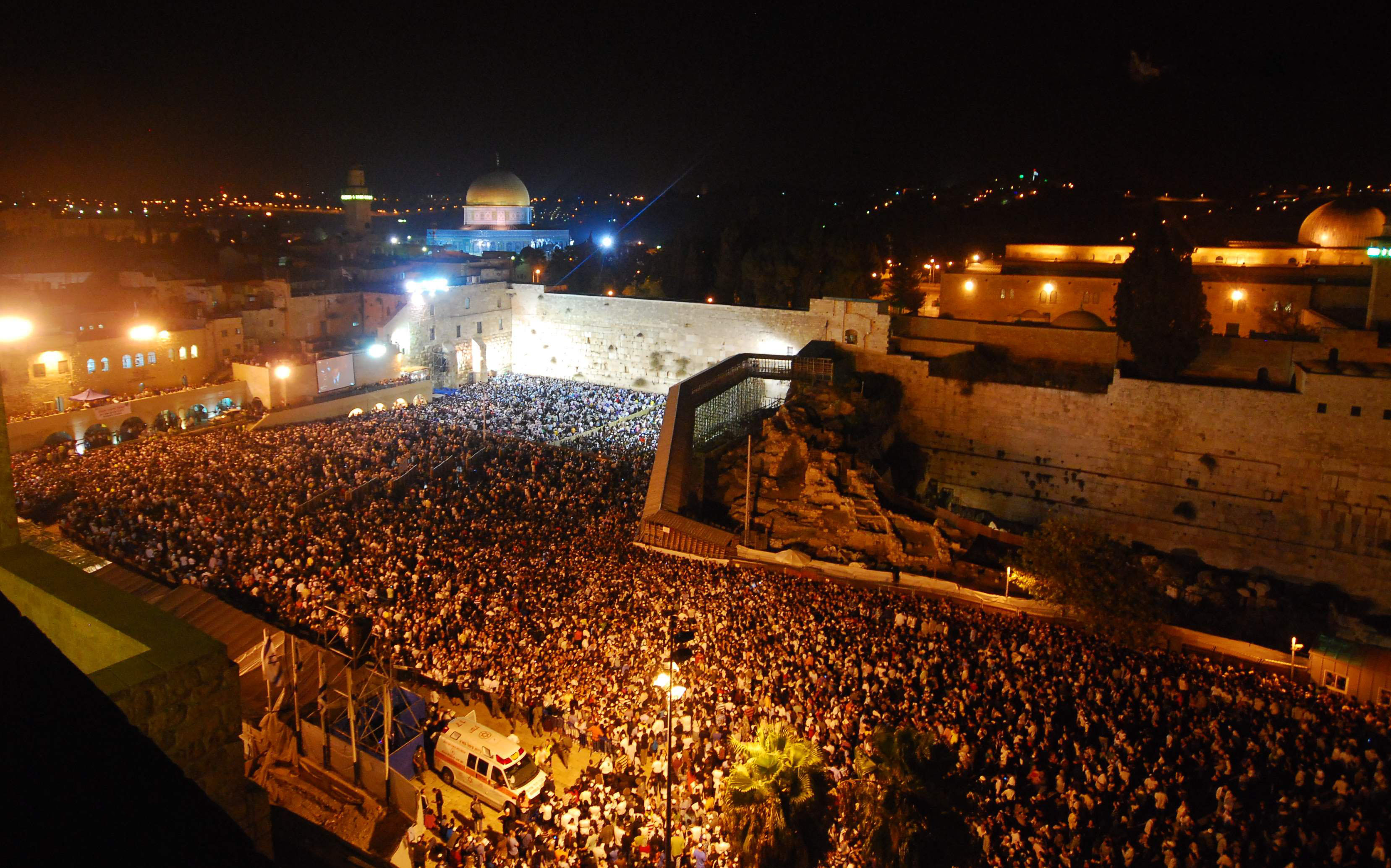 Slichot prayers and Hatarat Nedarim before Yom Kippur 2010 in the Western Wall, Jerusalem